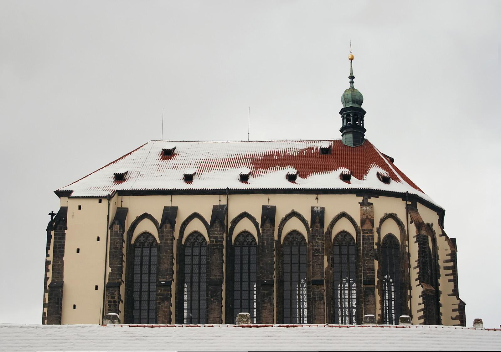 Church of Our Lady of the Snows in New Town of Prague, Czech Republic.